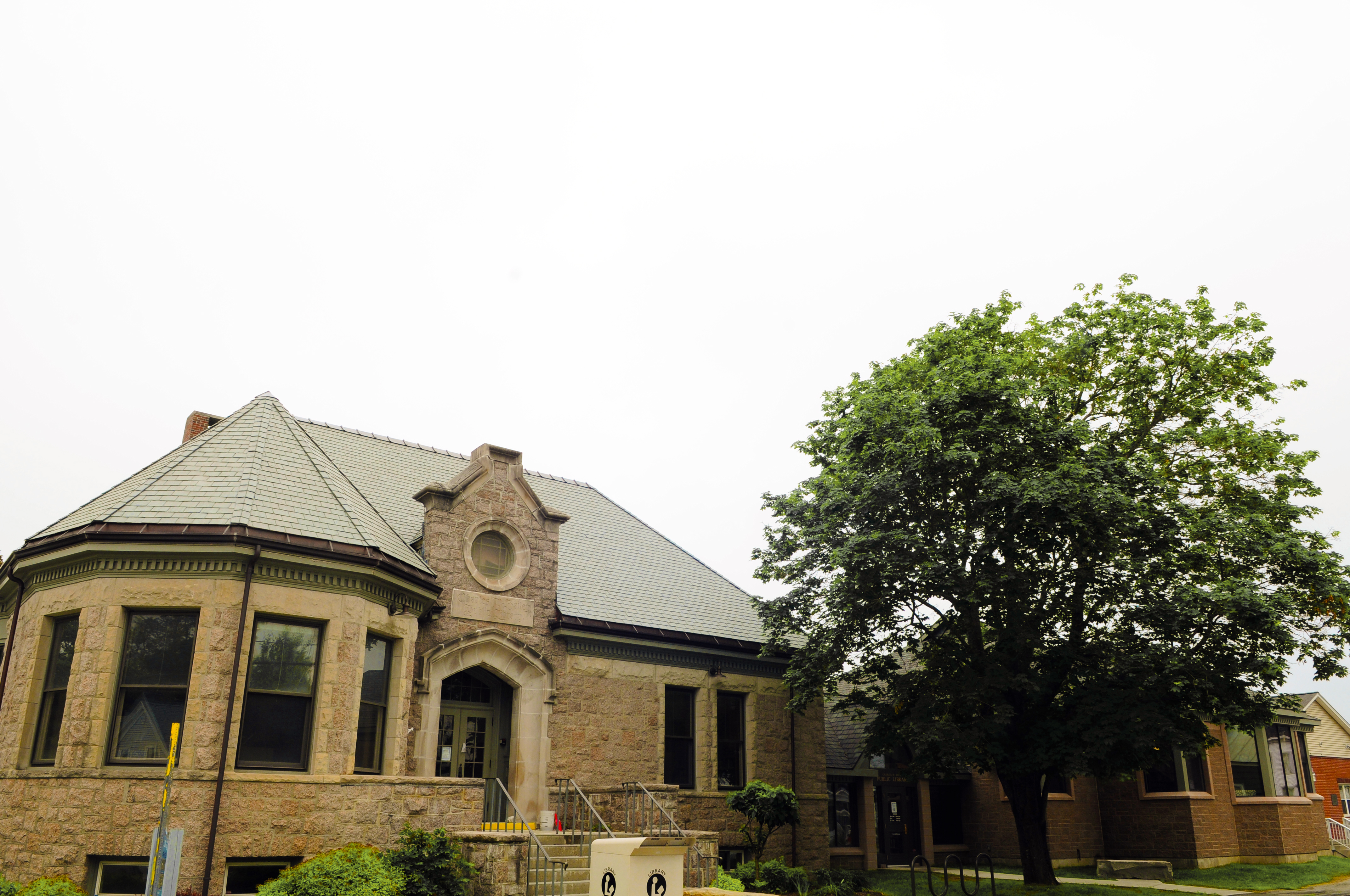 The Charles M. Bailey Public Library just after completed 2015 addition.